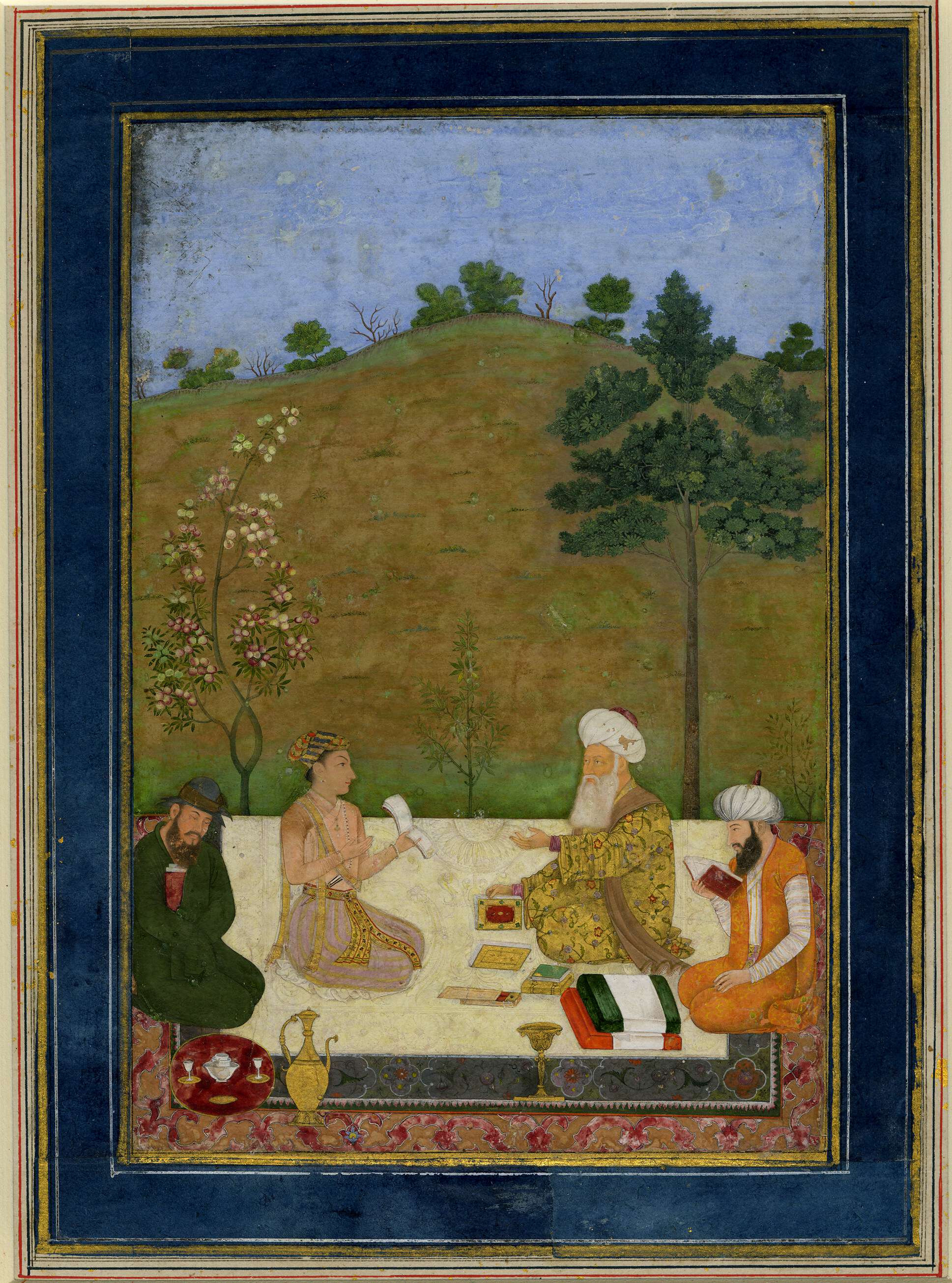 Dara Shikuh and three holy men Ascribed to Dal Chand India, Mughal school Despite the attribution, it seems unlikely that this is the work of Dal Chand, who was active at Delhi in the first half of the 18th century. This portrait of the Mughal Prince, Dara Shikuh, is faithful to the spirit of the man, known for his mystical leaning, his biographies of Sufi saints, and his translation of Upanishads.